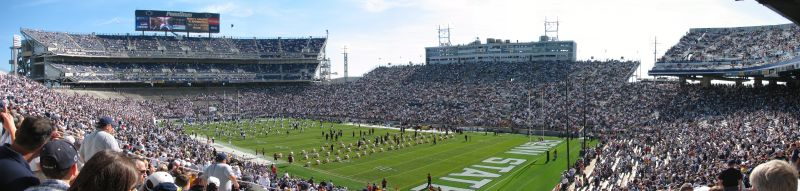 Beaver Stadium: Penn State vs. Minnesota - Oct 1st, 2005.